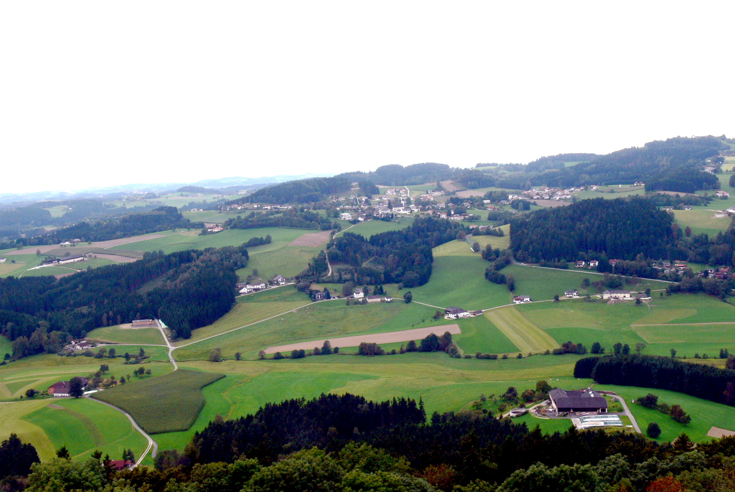 Waxenberg castle - View from Donyon to St.Veit im Mühlkreis.